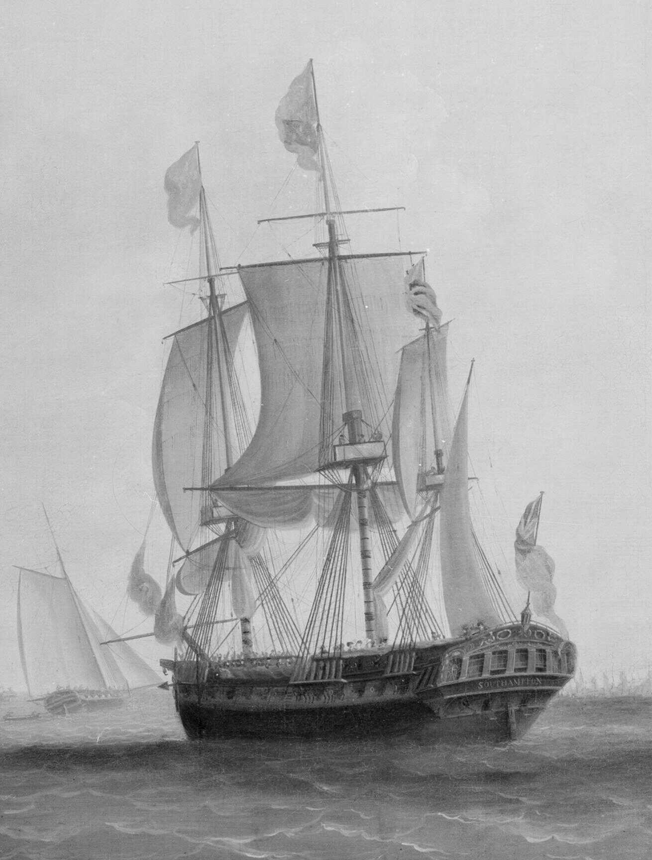 George III in HMS Southampton reviewing the fleet off Plymouth, 18 August 1789 'George III in HMS Southampton reviewing the fleet off Plymouth, 18 August 1789'. The Carnatic is shown just right of the centre of the picture, heading the line of ships being reviewed. George III in HMS 'Southampton' reviewing the fleet off Plymouth, 18 August 1789